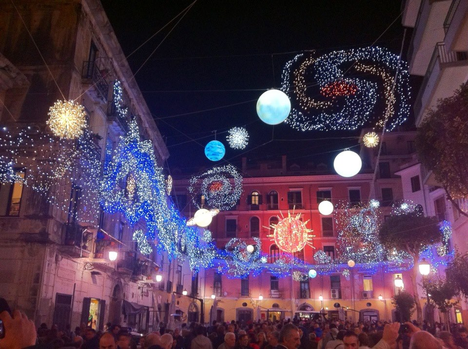 Luci d'Artista of Salerno in 2012, in Flavio Gioia square.